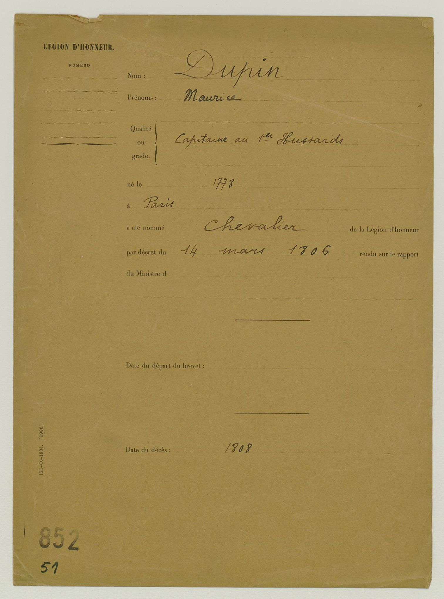 Legion of Honour paper for Maurice Dupin